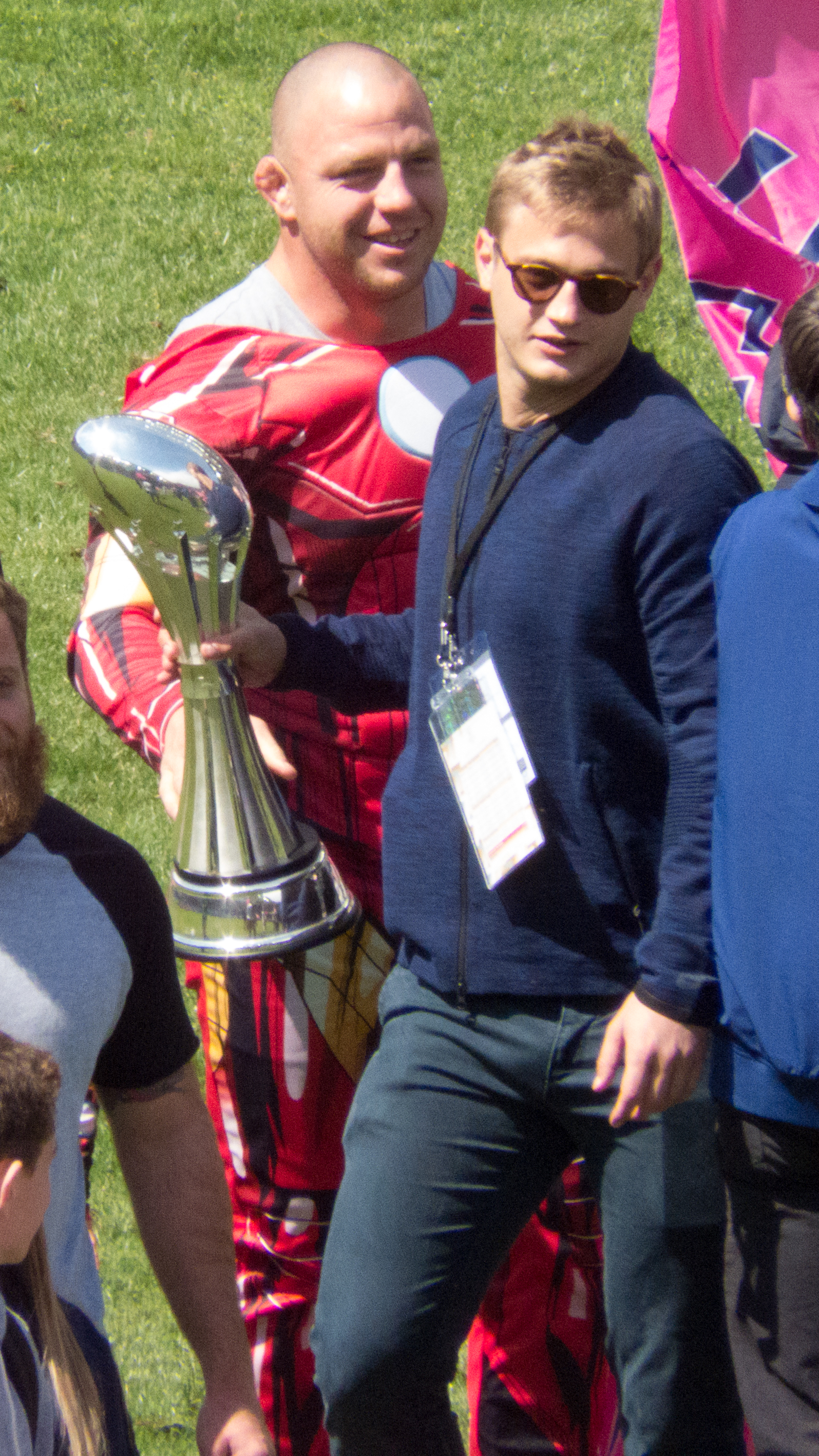 Paris Sevens 2017 — 14 May 2017, stade Jean-Bouin. Match between: South Africa — New Zealand